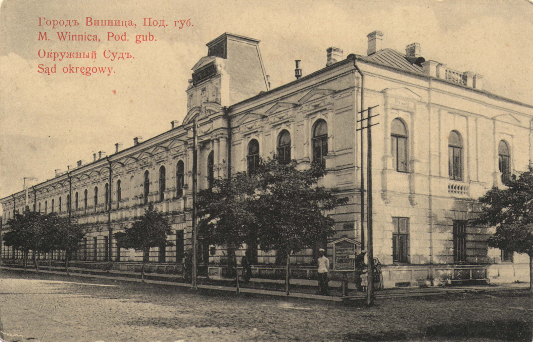 Vinnytsya, Hrushevskoho street 17. This house was built in 1910-1920 by architects H.H. Artynov and V.A. Prusakov. According to the project the Circuit Court was an addition of the house of the Town Council. In the sixties of 20 cen. the second floor was added.